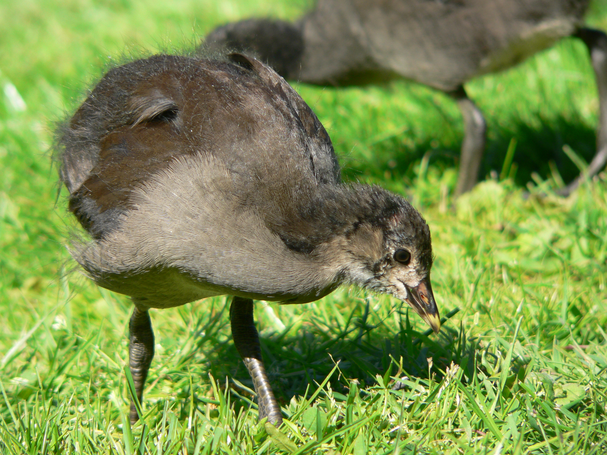 Mai 2005 Photo taken by user Benutzer:BS Thurner Hof young chick of Gallinula chloropus (German name "Teichhuhn" means this species)